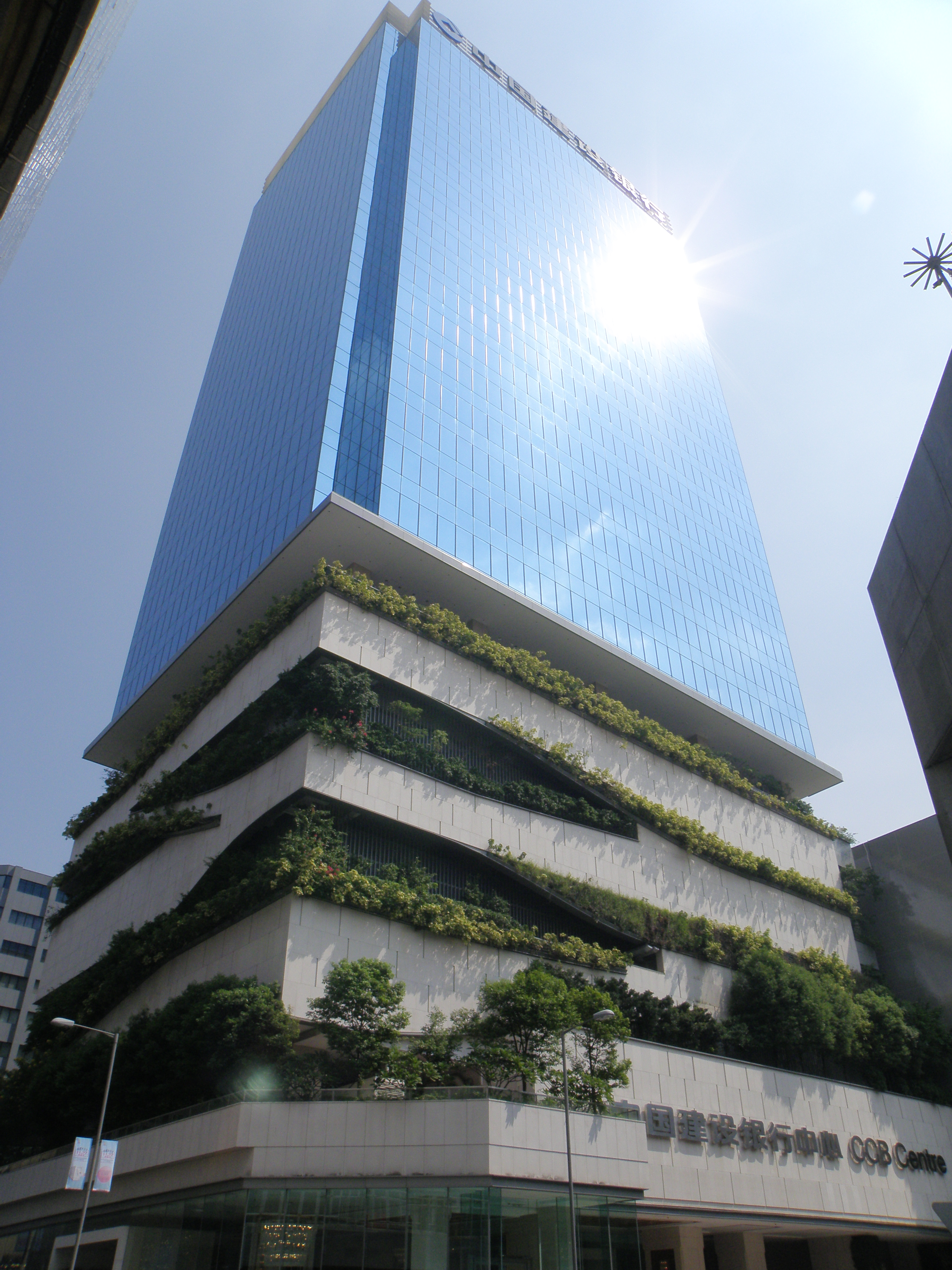 China Construction Bank Centre in Kowloon Bay, Hong Kong.